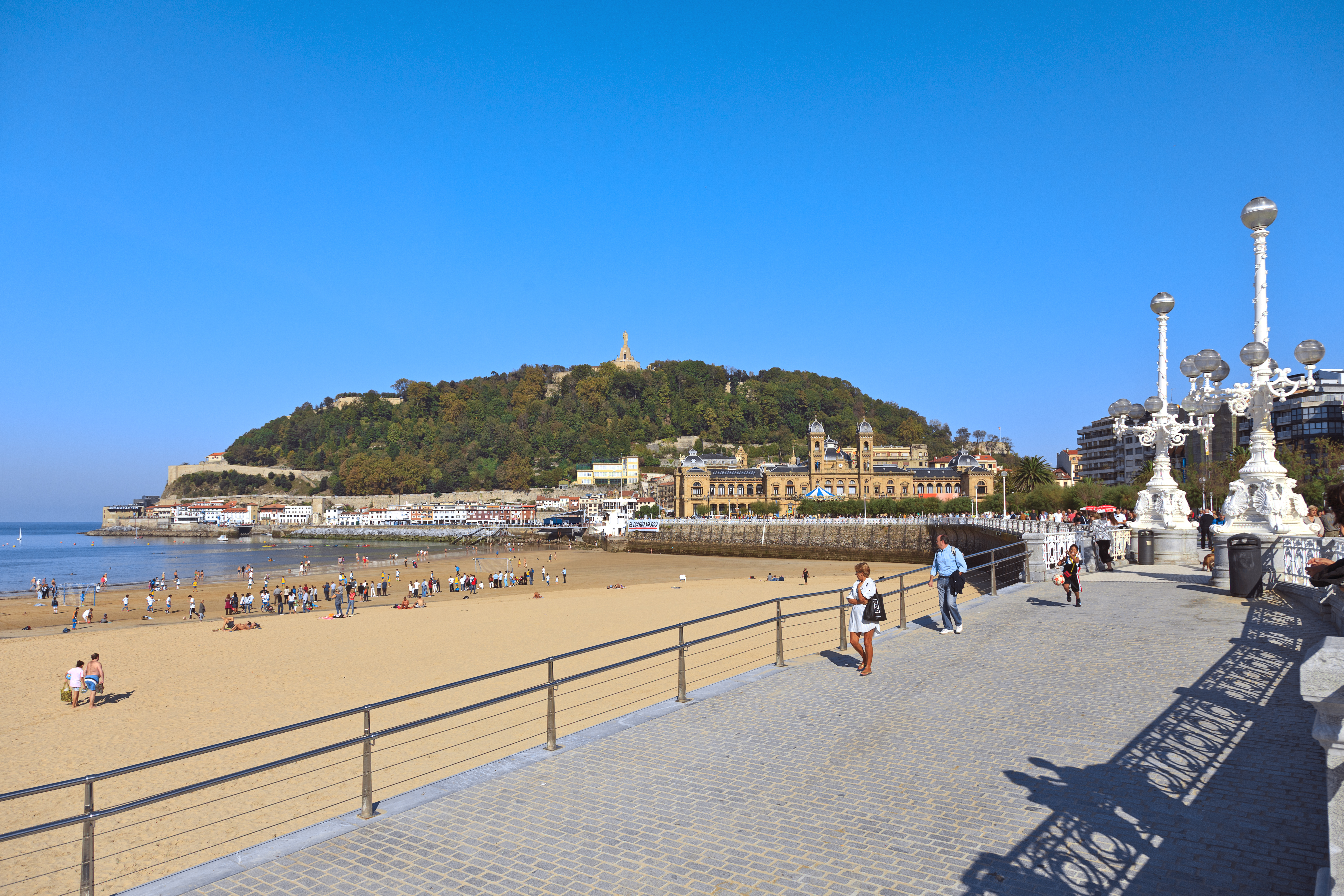 View of Urgull, townhall of Donostia and Kontxa beach.